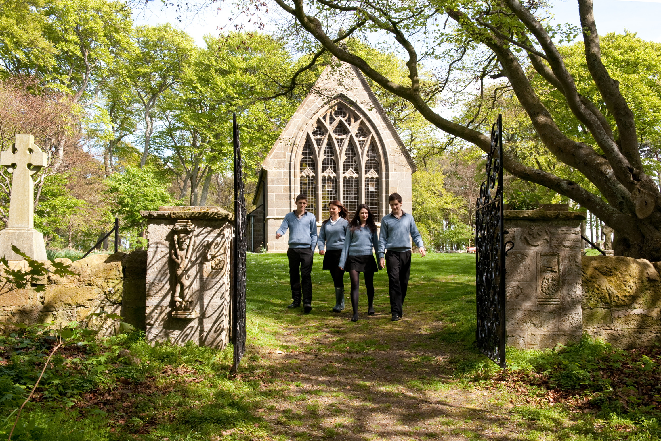 St Michael’s Kirk is the former chapels within the grounds of Gordonstoun. It is still used for smaller events and weddings.